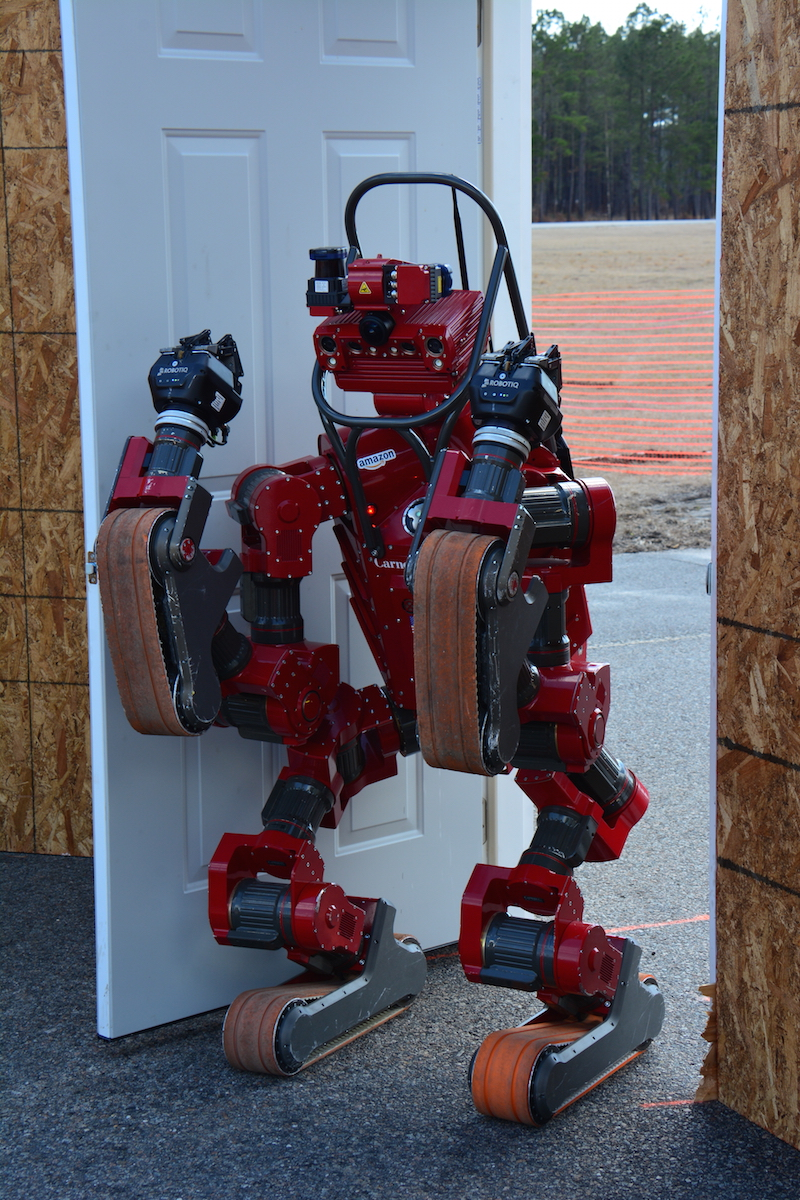 The Team Tartan Rescue robot CHIMP -- Carnegie Mellon University highly intelligent mobile platform --had an unofficial top score June 5, 2015, the first day of the DARPA Robotic Challenge Finals in Pomona, Calif. Here, CHIMP performs one of eight tasks the team must complete, each worth a point on the scoreboard. Team members are from Carnegie Mellon University and the National Robotics Engineering Center in Pittsburgh, Pennsylvania, USA.)